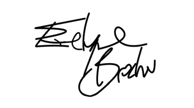 Actress Évelyne Brochu signature